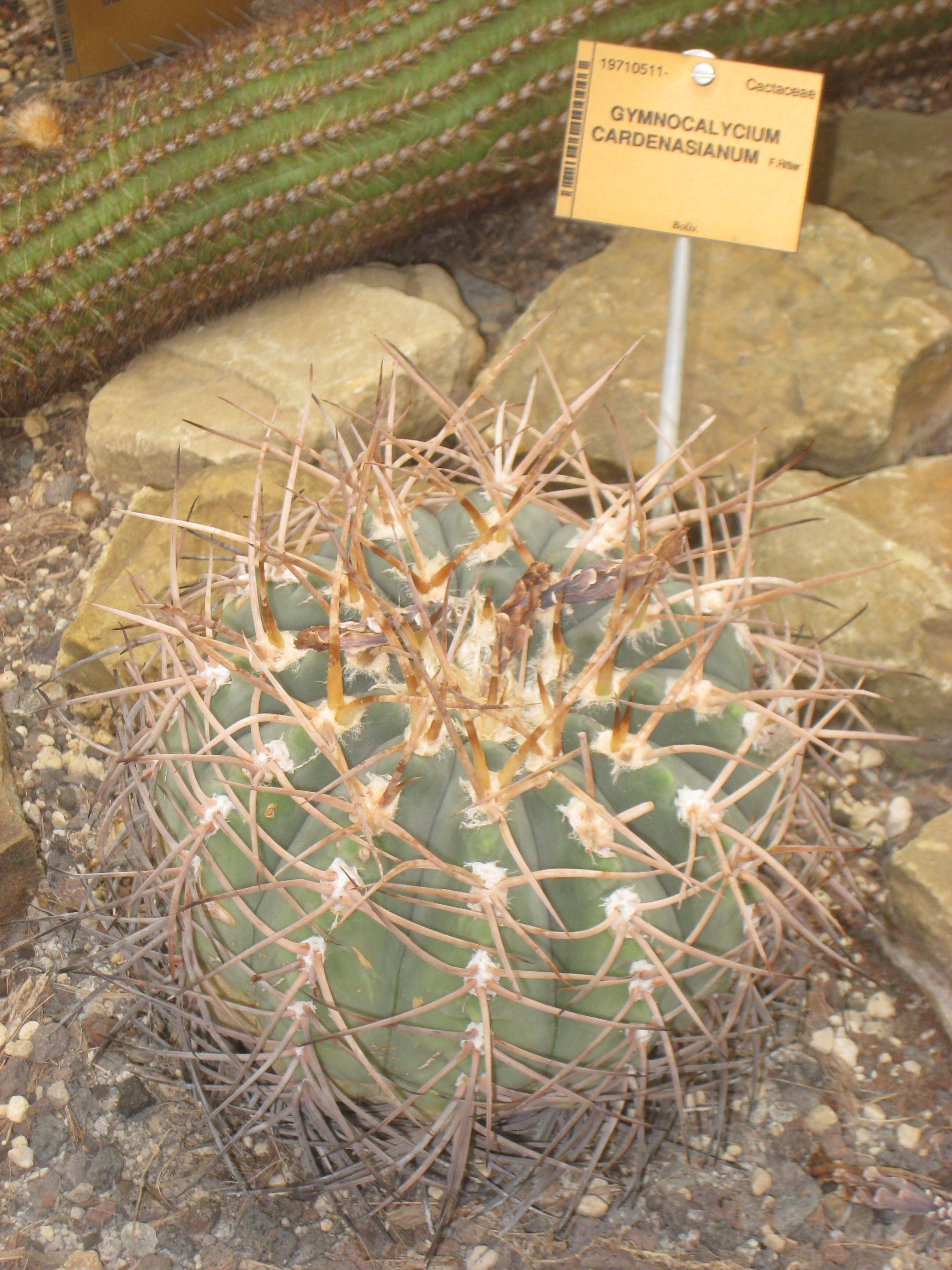 Gymnocalycium cardenasianum specimen in the National Botanic Garden of Belgium, Meise, just north of Brussels, Belgium.